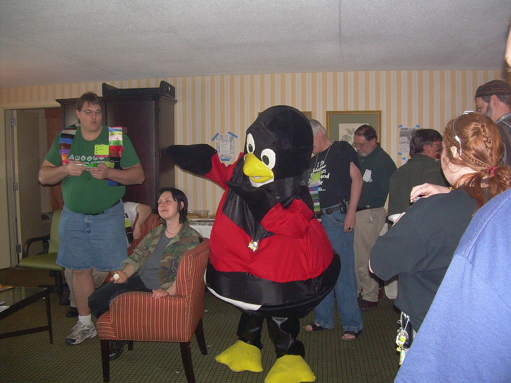 Starfleet Tux visits the ConSuite at Penguicon 2007.